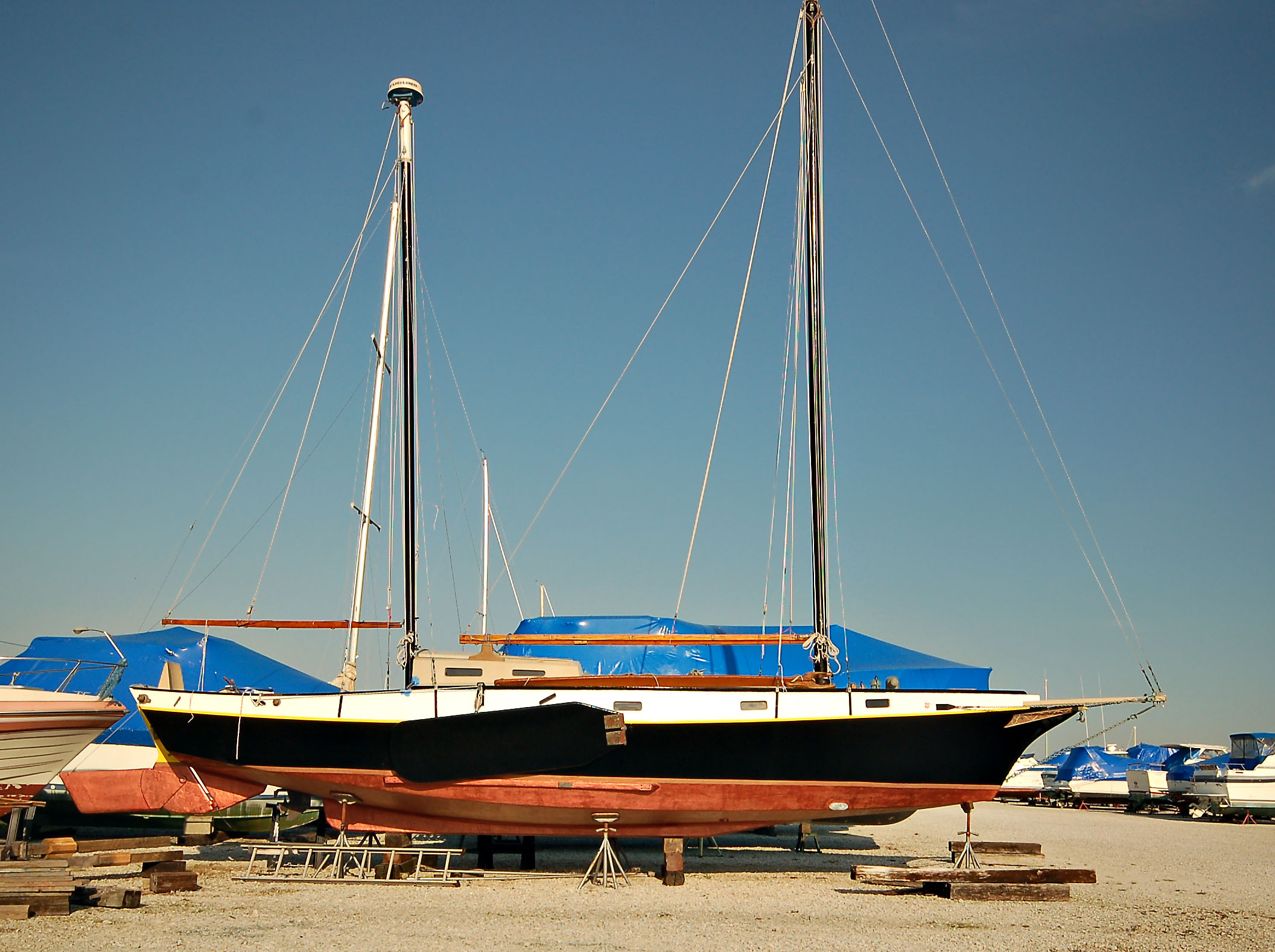 The Centennial, a 34 foot gaff-rigged sharpie ketch designed by Ted Brewer in 1979 and built by Alan Vaitses for (and with assistance from) Nick and Trudy Loy in 1980. The hull is made from marine plywood-cored fiberglass and the deck from AIREX®-cored fiberglass.